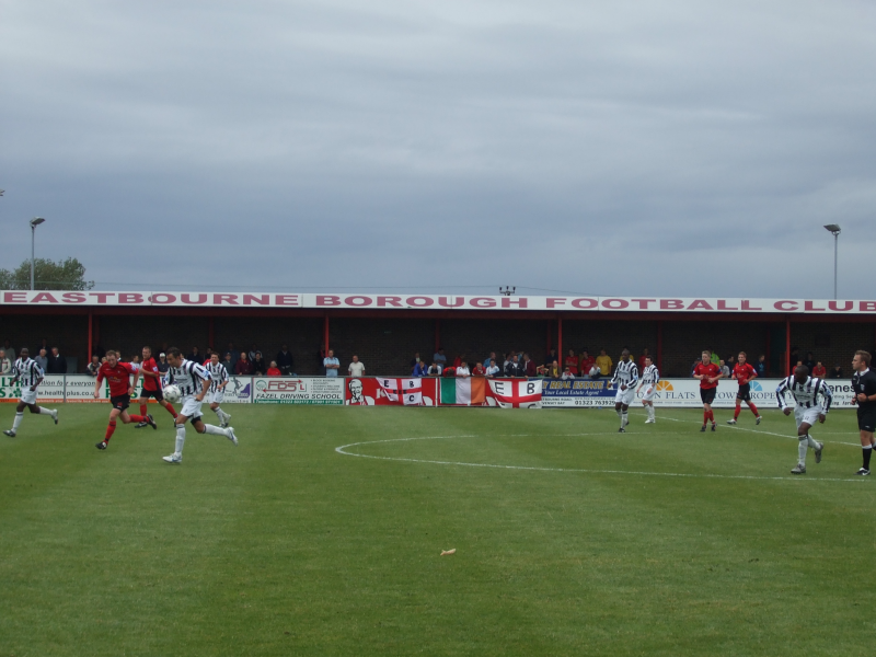 Photo taken on 18 August 2007 during Eastbourne Borough's home game against Maidenhead United. Eastbourne won the game 2 - 1. The north stand is in the background.